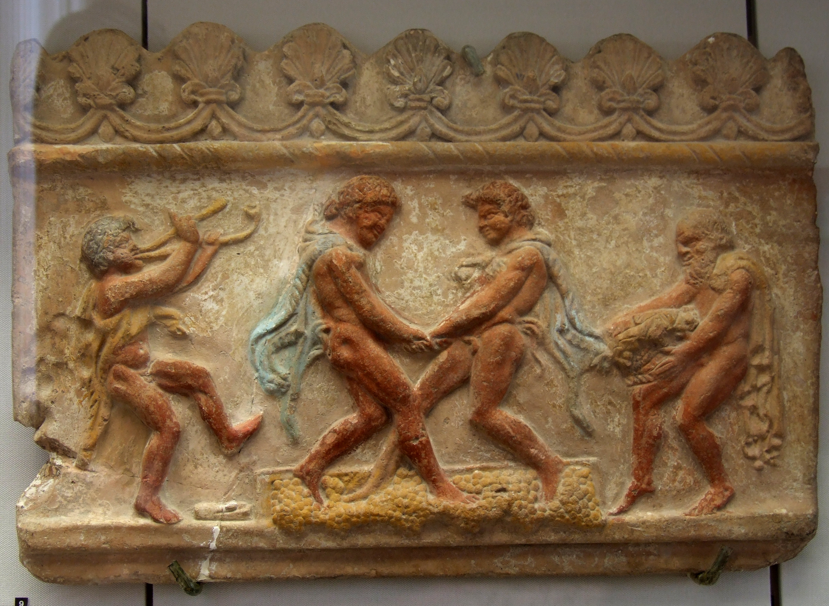 Architectural relief plagues - vintage and pla tramp grapes. Rome 2nd half 1 c. AD